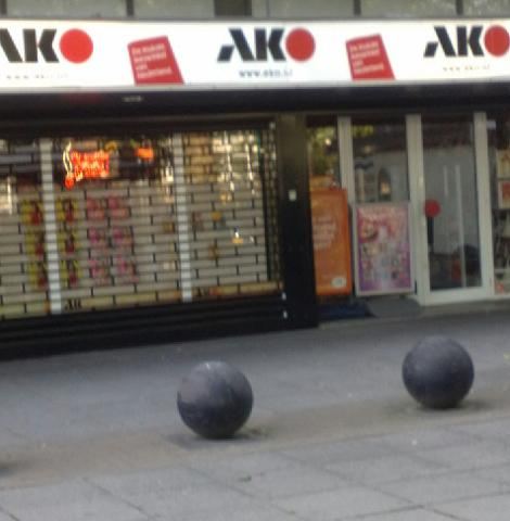 AKO-shop at Buitenveldertselaan in Amsterdam, the Netherlands.